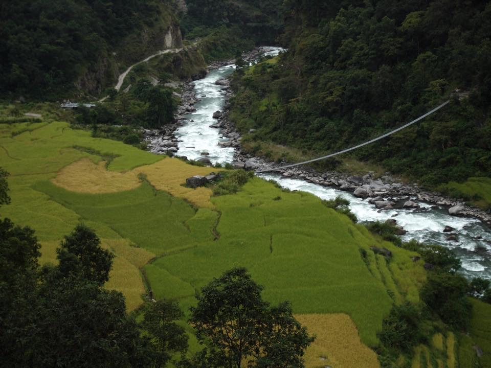 Likhu Khola (river) near sirsee